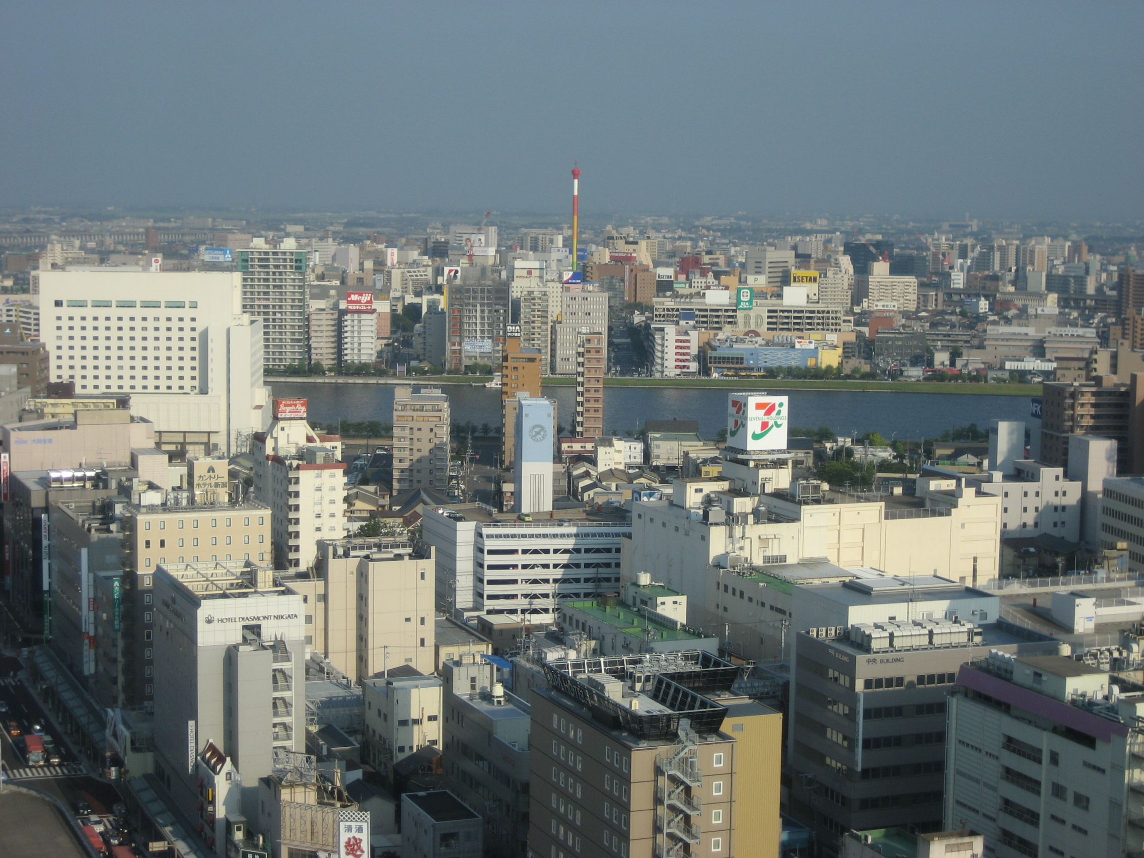 For Bandai City Area